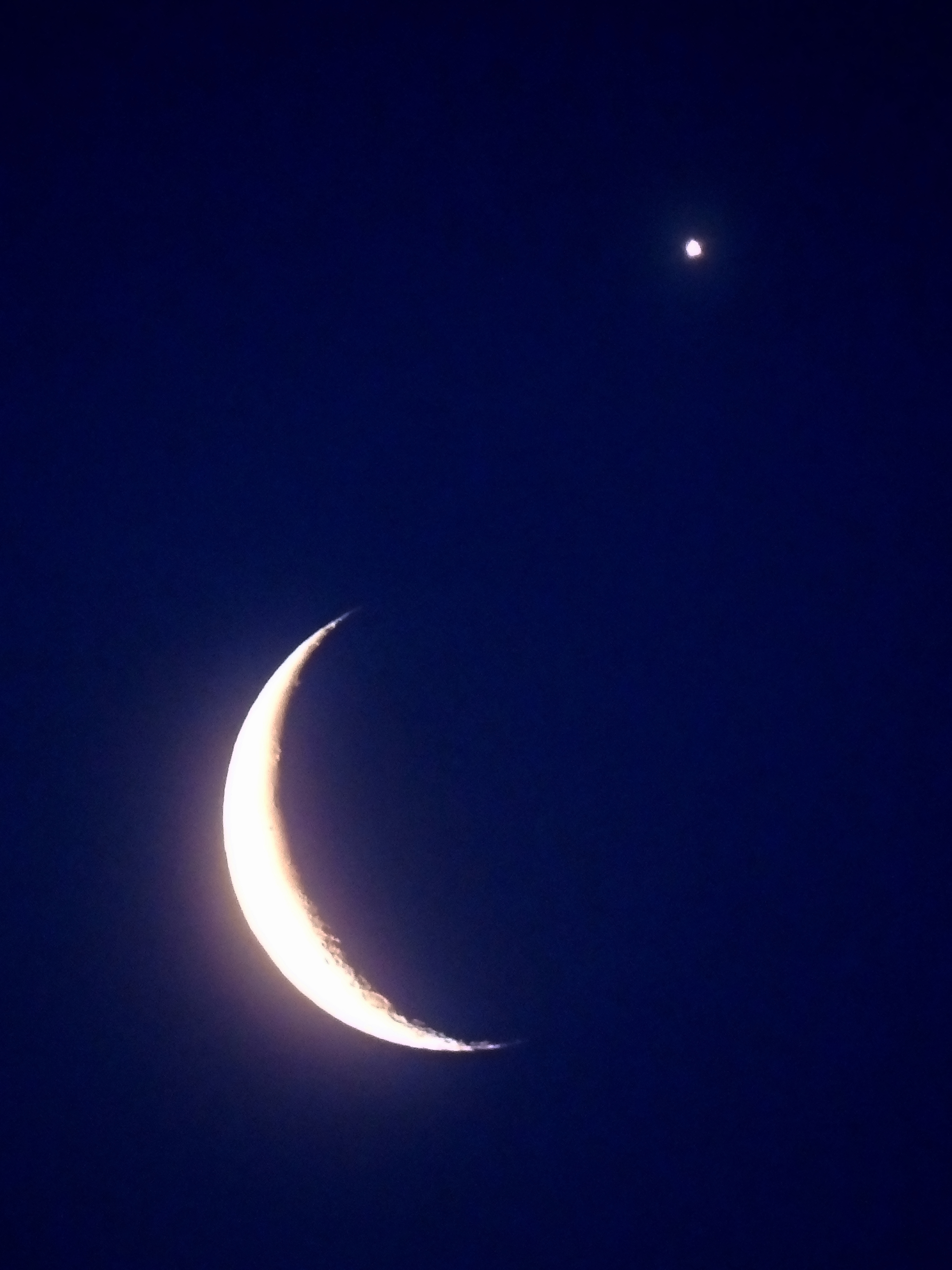 left: the Moon right: the Venus 2014-02-26